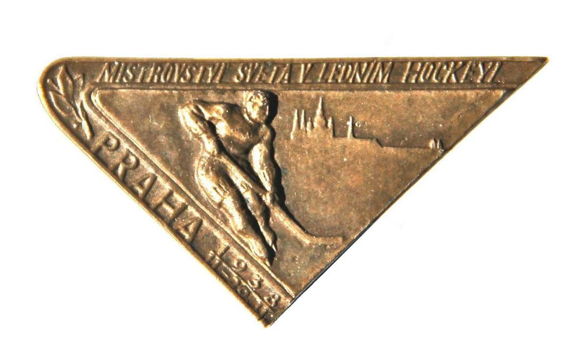 Metal pin from the 1938 Ice Hockey World Championships (were held between February 11 and February 20, 1938 in Prague, Czechoslovakia), which belonged to one of the leading players of Lithuanian Ice Hockey team, forward Vytautas Ilgūnas.